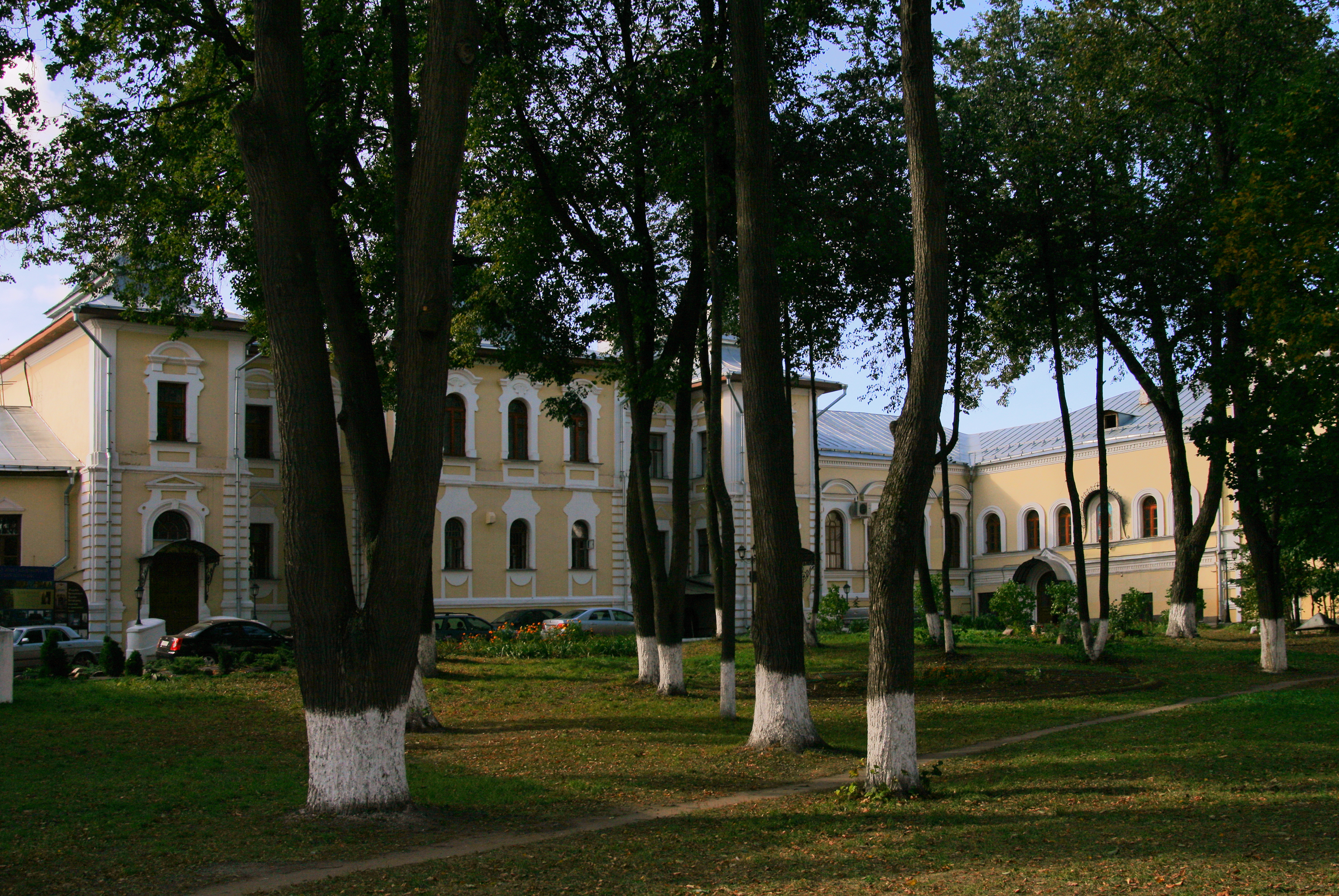 Bishop's house, XVII-XVIII c, Monastery of the Nativity of the Theotokos, Vladimir